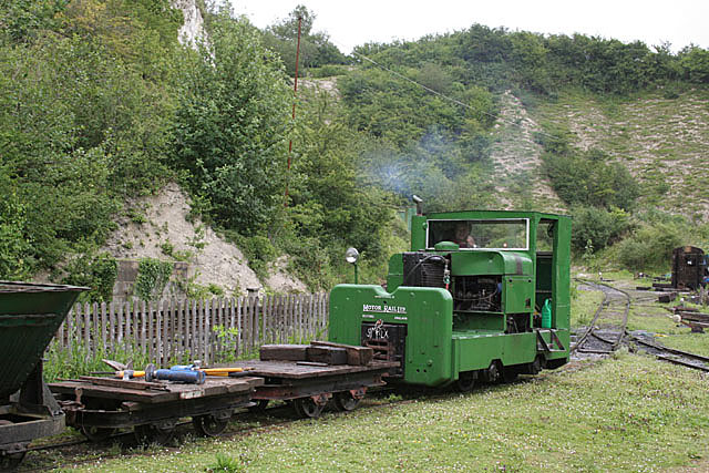 Industrial railway, Amberley working museum An authentic re-creation of a narrow gauge railway which would have been typical of quarrying operations.